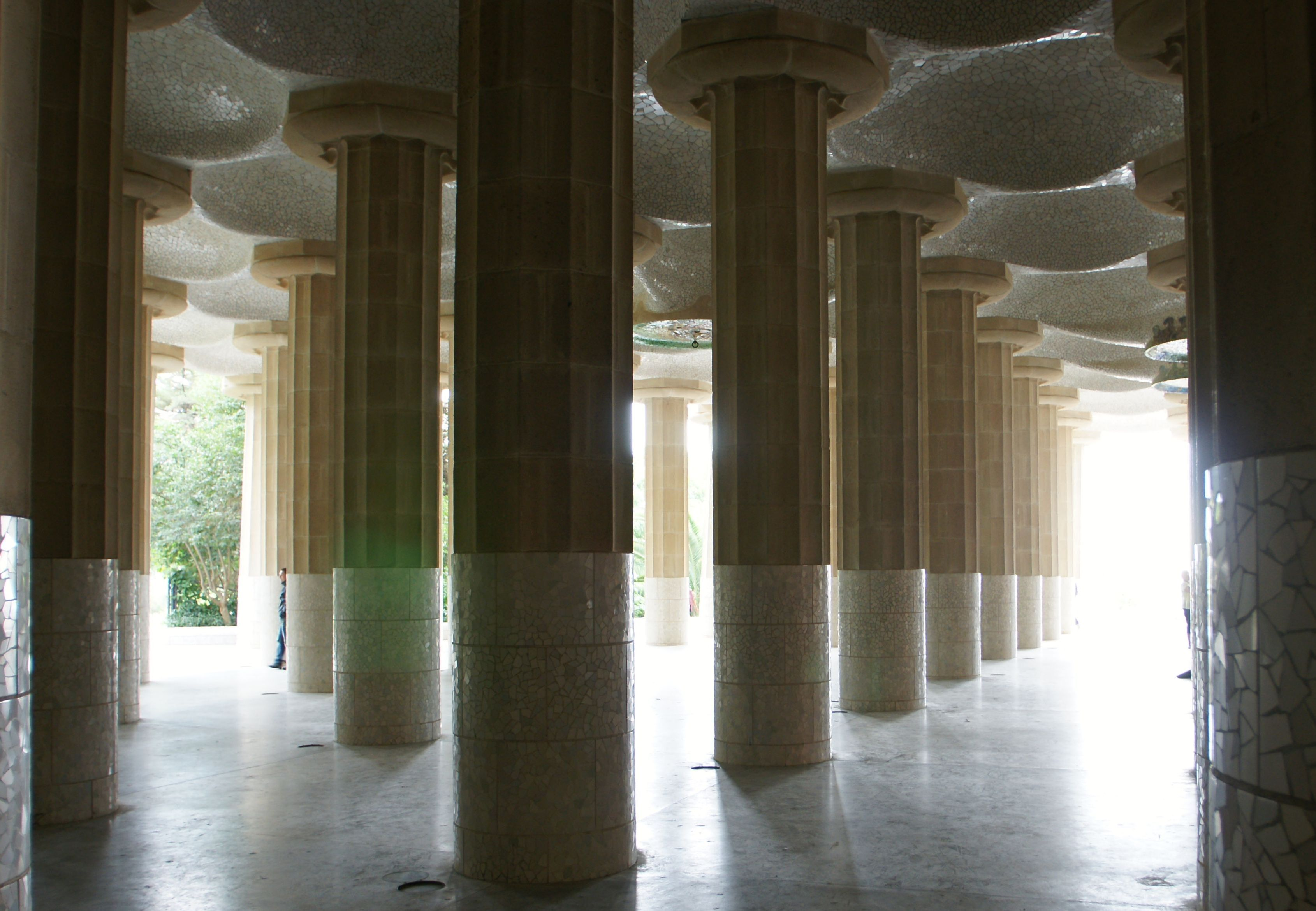 Park Güell is a garden complex with architectural elements situated on the hill of El Carmel in the Gràcia district of Barcelona, Spain. It is part of the UNESCO World Heritage Site "Works of Antoni Gaudí".